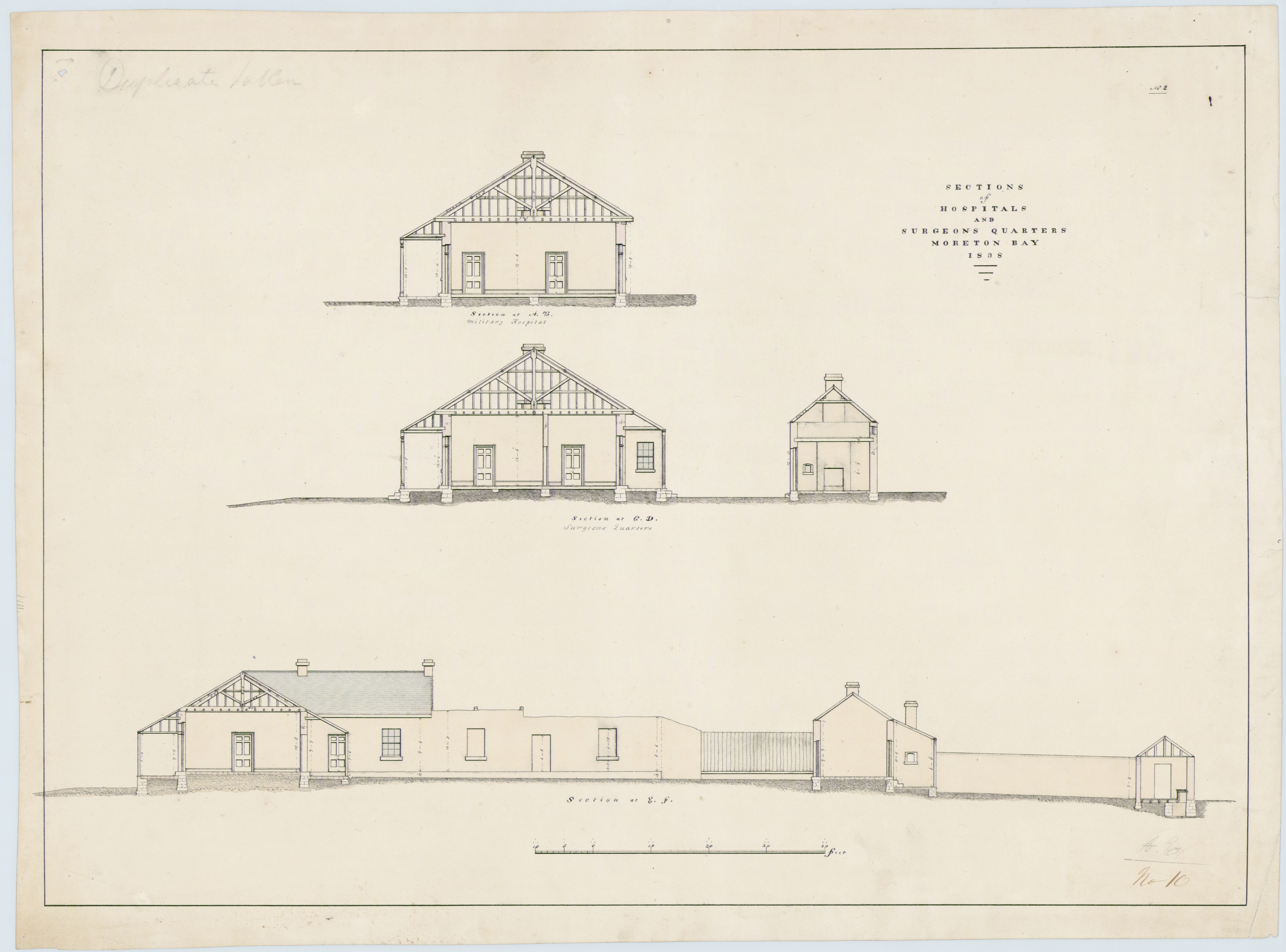 Drawing showing sections of Hospitals and Surgeon's Quarters, Moreton Bay, 1838. The facility built for David Keith Ballow, who was appointed Government Medical Officer in 1838 after serving as Assistant Colonial Surgeon in Sydney.